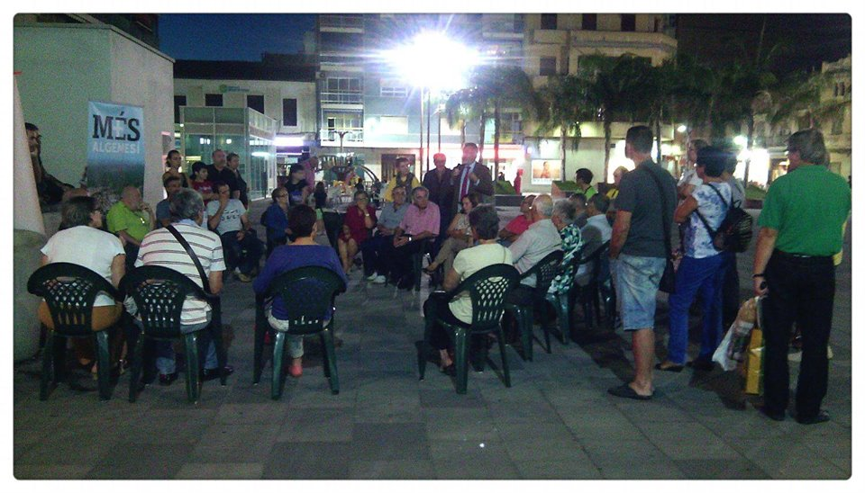 Imatge d'una de les assemblees de barri de Més Algemesí